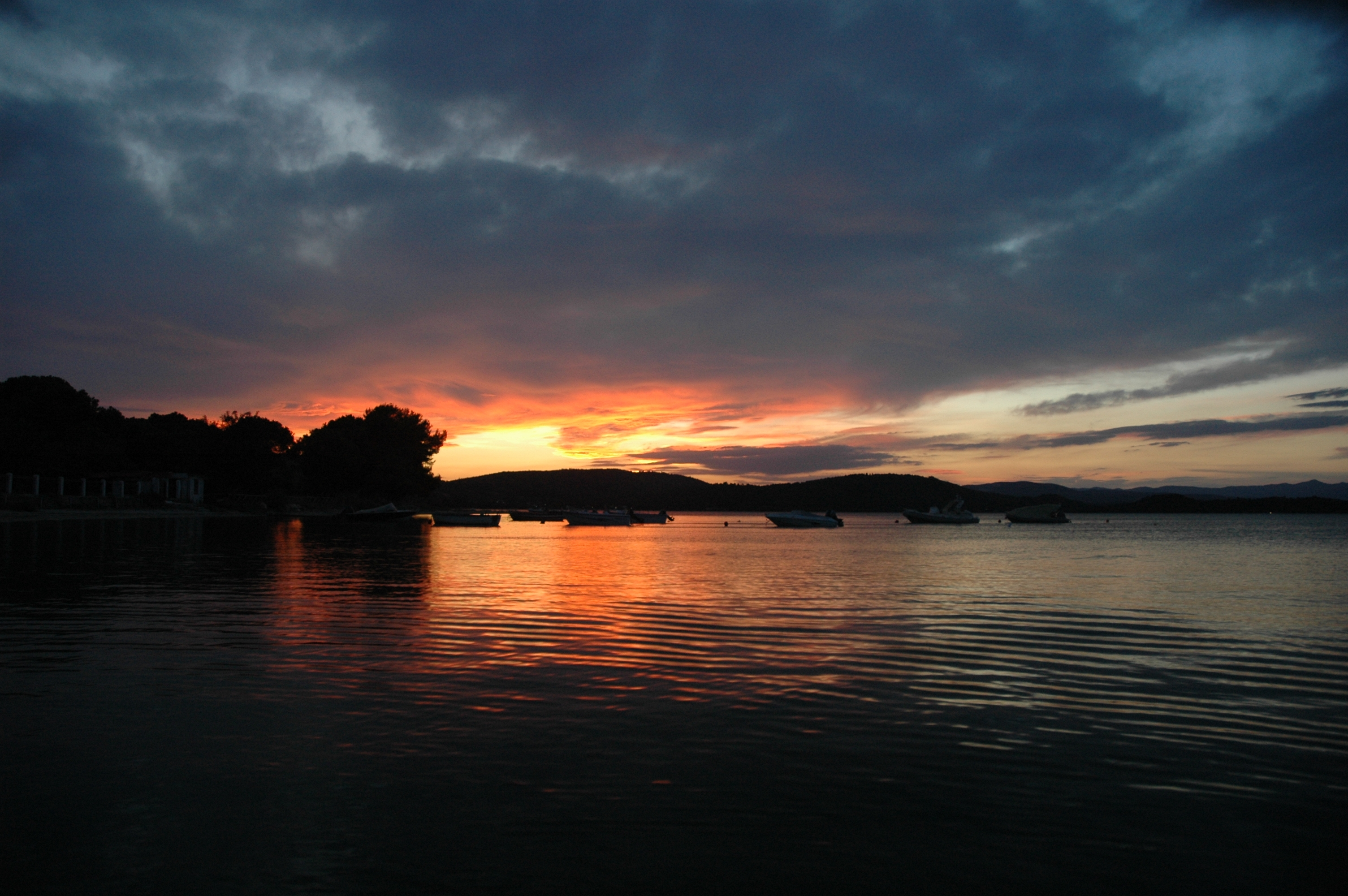 Sunset in Chalkidiki, Greece.